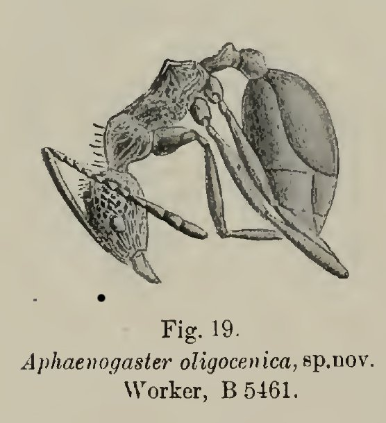 Aphaenogaster oligocenica holotype worker profile view. Specimen number "B 5461"